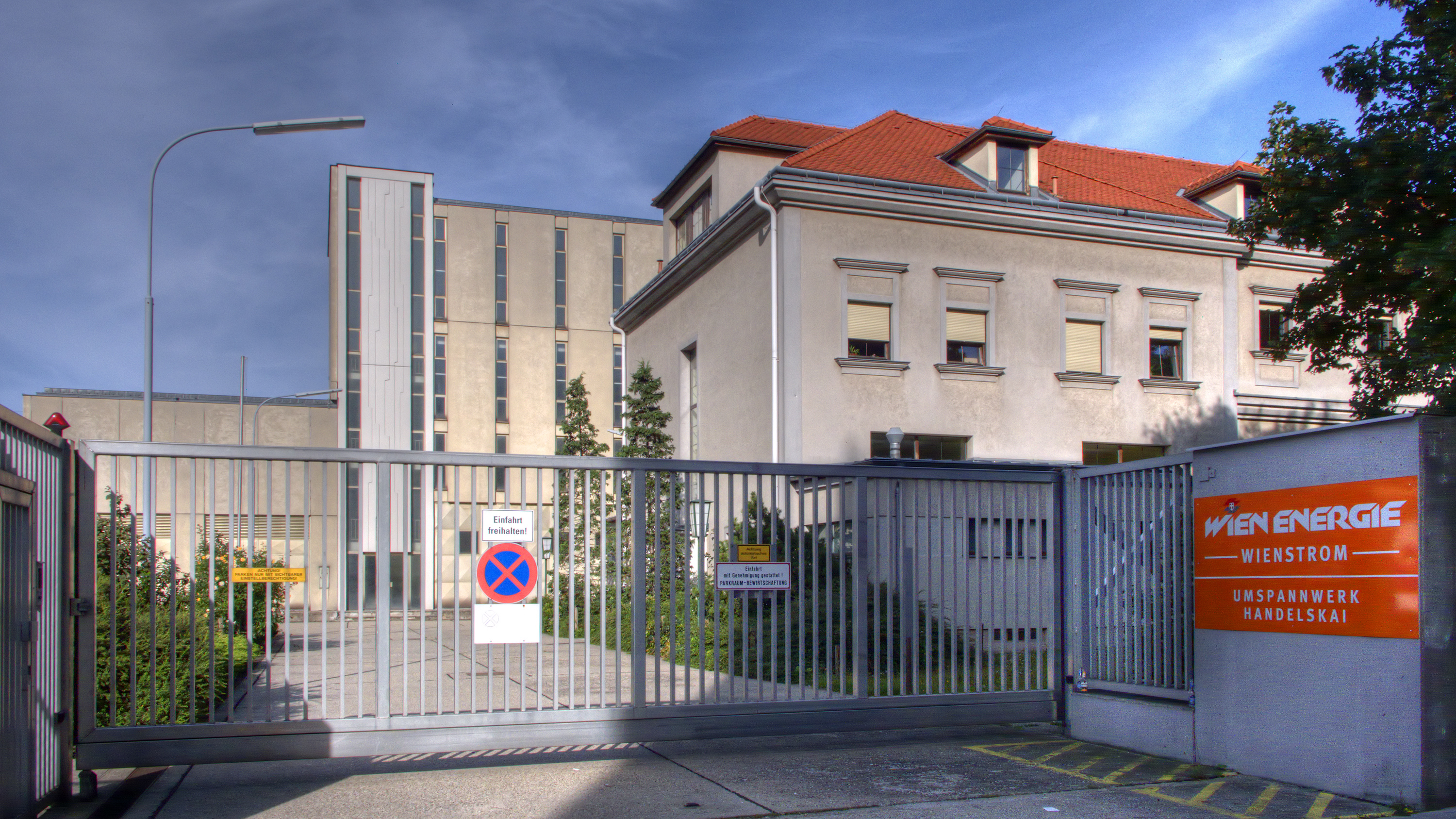 Umspannwerk Handelskai in Vienna / Leopoldstadt